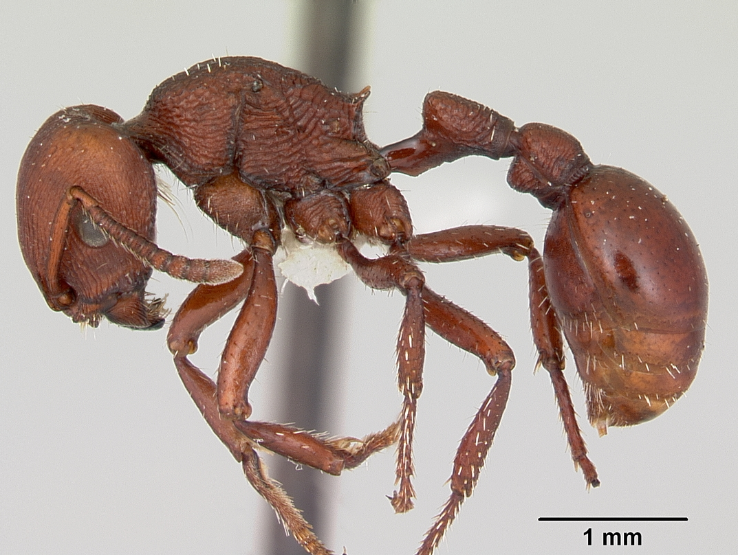 Profile view of ant Pogonomyrmex uruguayensis specimen casent0173115.